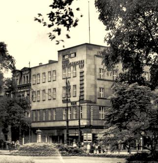 Hugo Schmölz (geb. 21. Januar 1879 in Sonthofen; gest. 27. April 1938 in Köln), Düsseldorf, Breidenbacher Hof, der Blick in die Königsallee um 1928.jpg